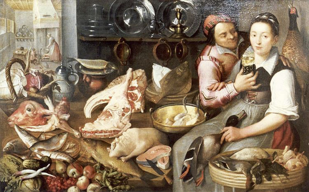 Floris van Schooten "Kitchen Peace" (XVII), Oil on canvas, 178 x 112 cm. (recovered in Kiev)